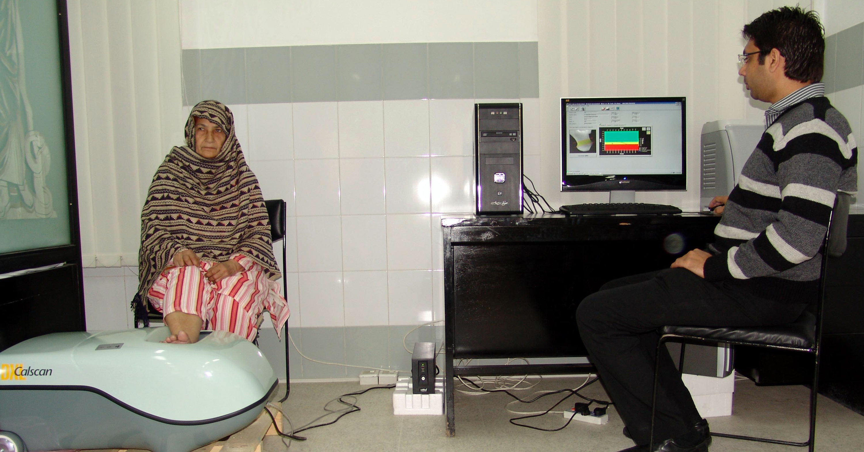 Ultrasound BMD assessment